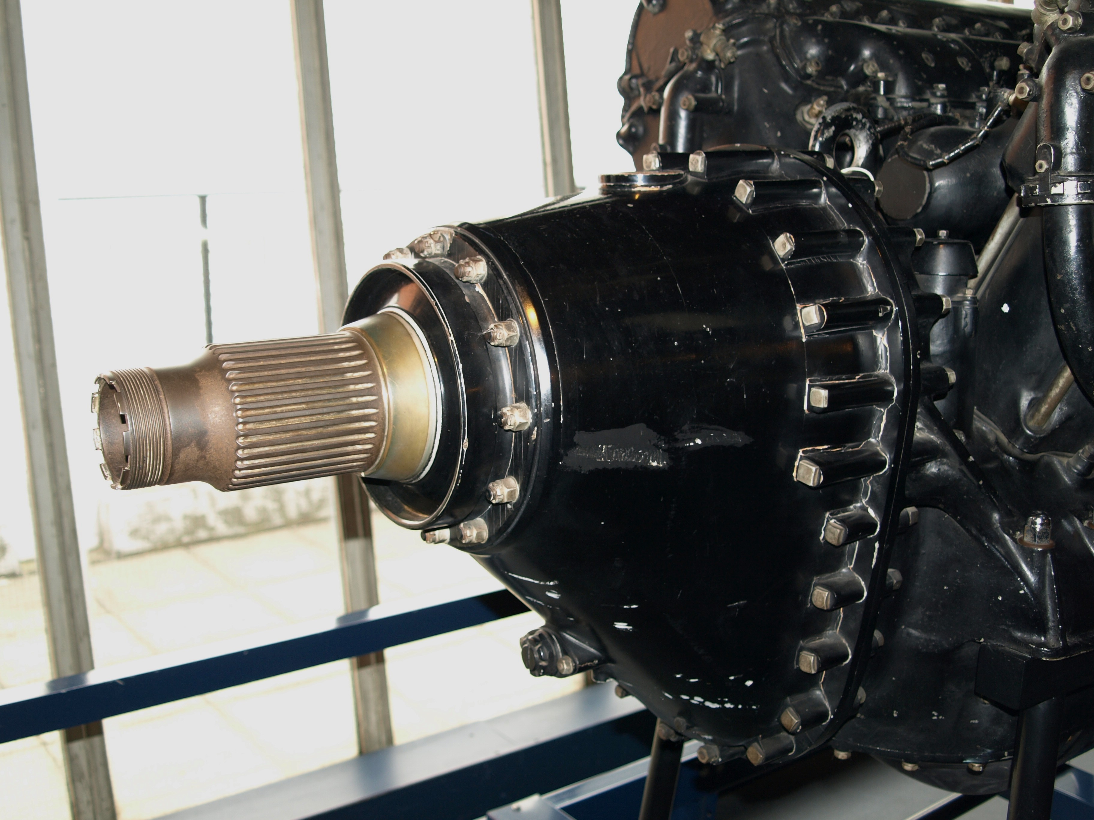 Propeller reduction gear of a Rolls-Royce R aero engine (London Science Museum)